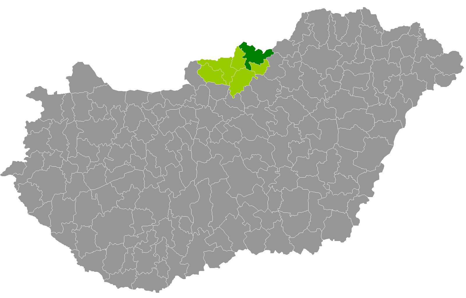 Location of Salgótarján District, Nógrád, Hungary